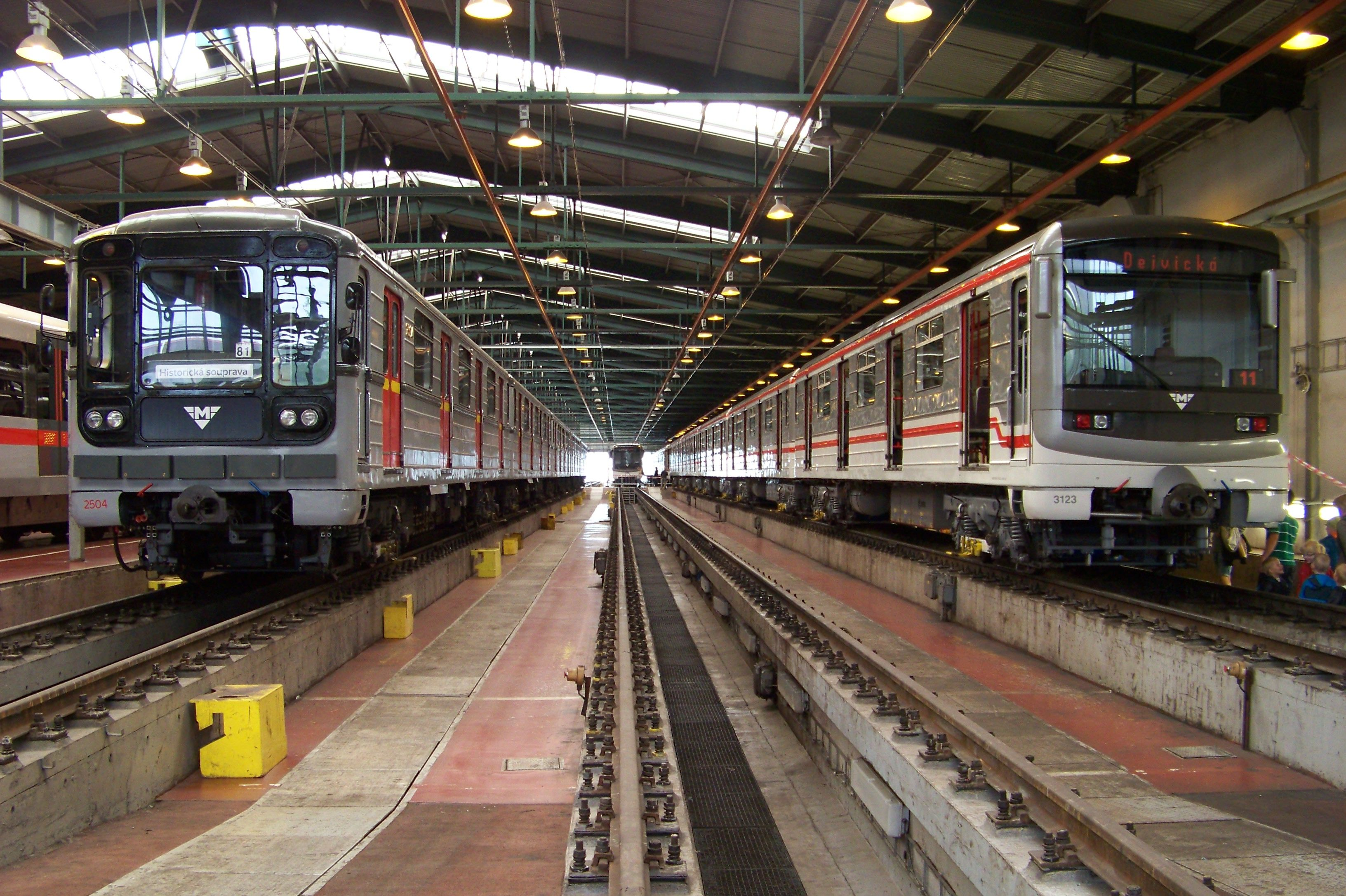 Prague-Strašnice, Czech Republic. Hostivař metro depot, open doors day.